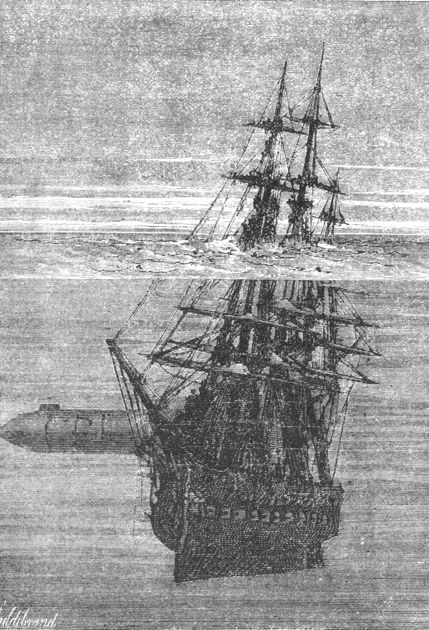 An illustration from Jules Verne's novel "Twenty Thousand Leagues Under the Sea" (1866-69) drawn by George Roux.